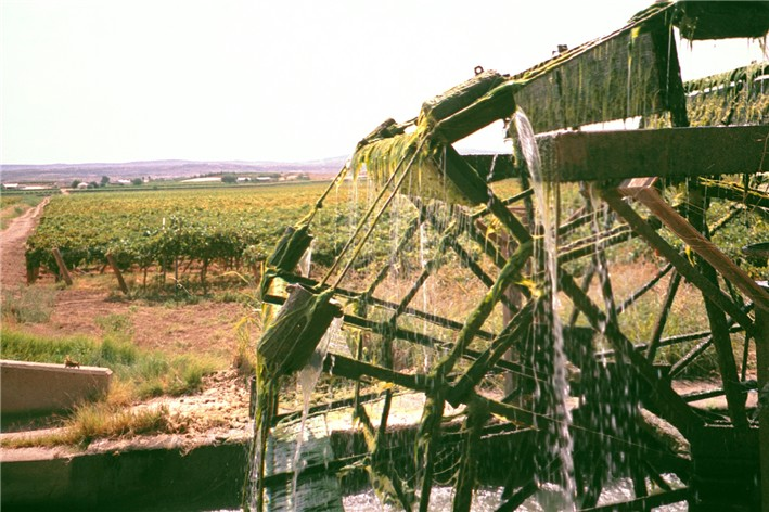 A wine farm next to the Orange River in South Africa